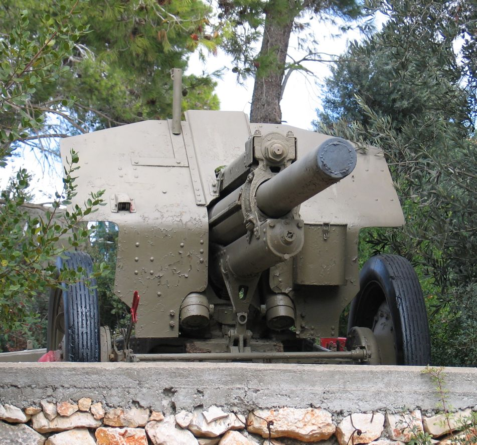 Description: Soviet M-38 122 mm howitzer in Beyt ha-Totchan, Zichron Yaakov, Israel. 2005. Source: Photo by me, User:Bukvoed.